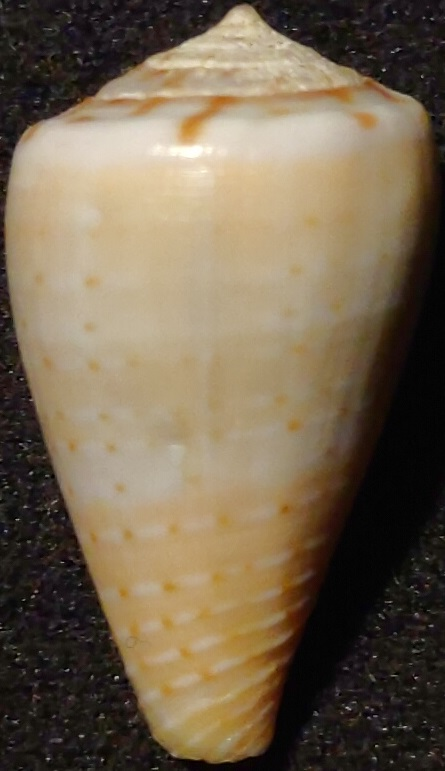 Conus Aplustre Back